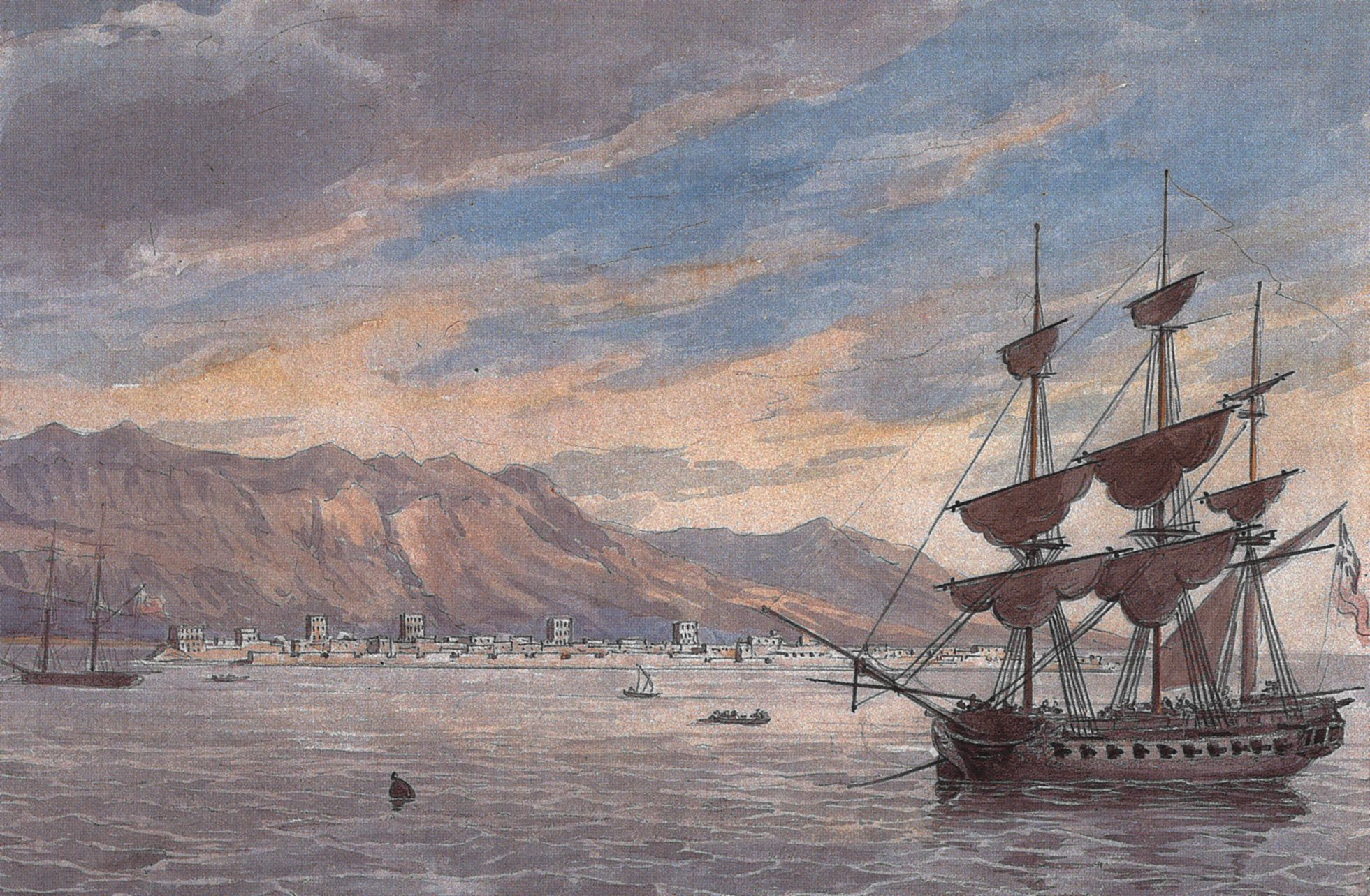 The British Expeditionary Force of 1809 off Ras Al Khaimah, today in the United Arab Emirates